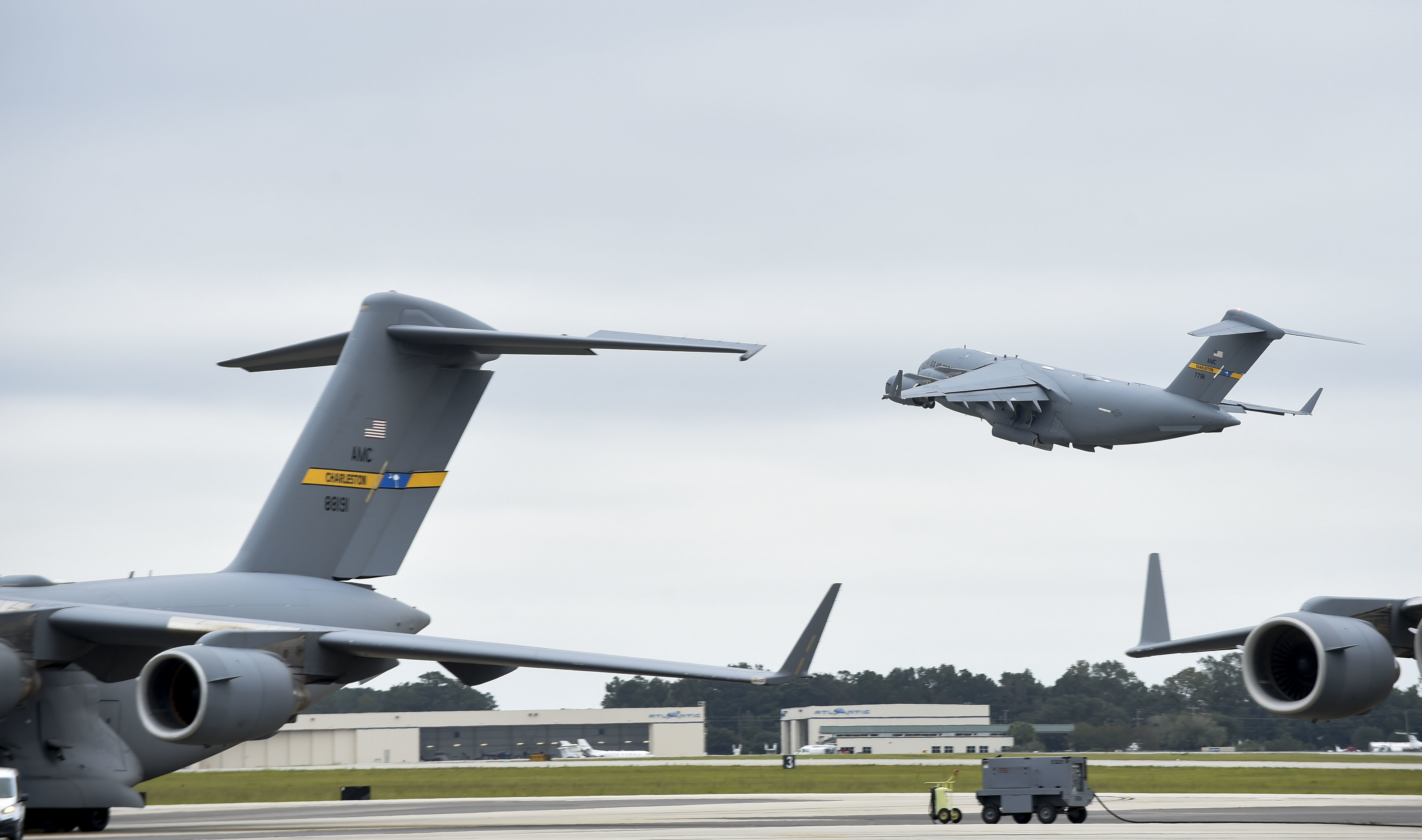 Joint Base Charleston C-17 Globemaster IIIs evacuate to Fort Campbell, KY on Oct. 6, 2016 to continue their mission of rapid global mobility during Hurricane Matthew. Due to Hurricane Matthew, a Limited Evacuation Order of South Carolina Hurricane Evacuation Zones was issued by the Commander, Joint Base Charleston. All Joint Base personnel are expected to evacuate the area and will return once damage is assessed and it’s safe to return. (U.S. Air Force photo by Senior Airman Nicholas Byers)